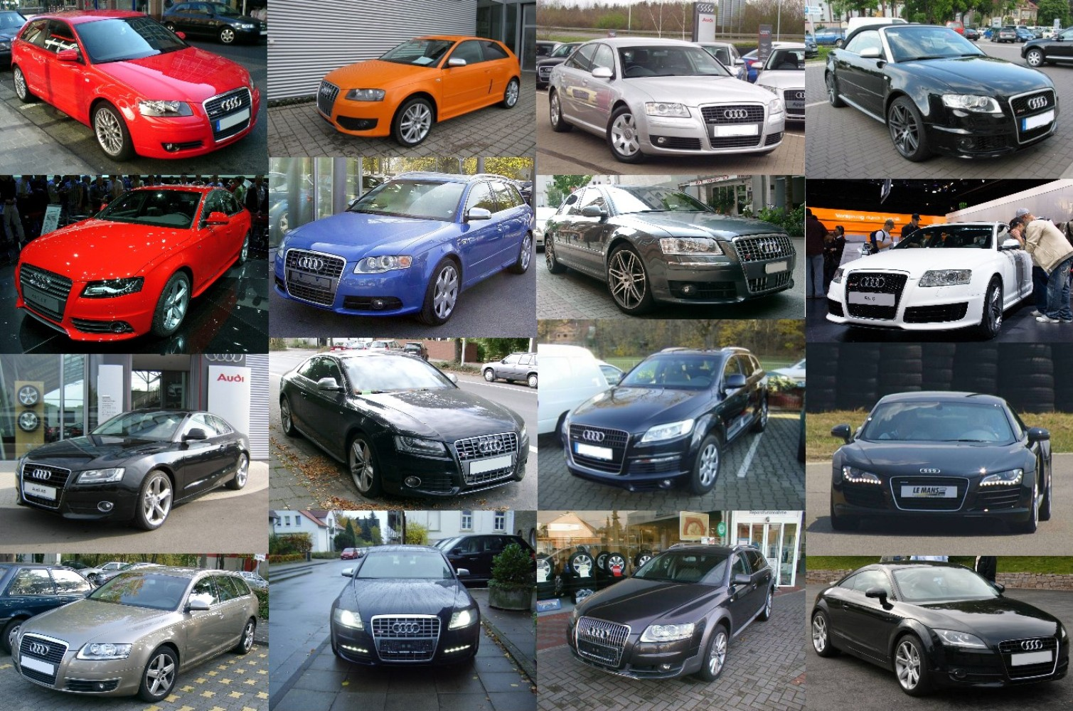 A collage of different Audi cars.